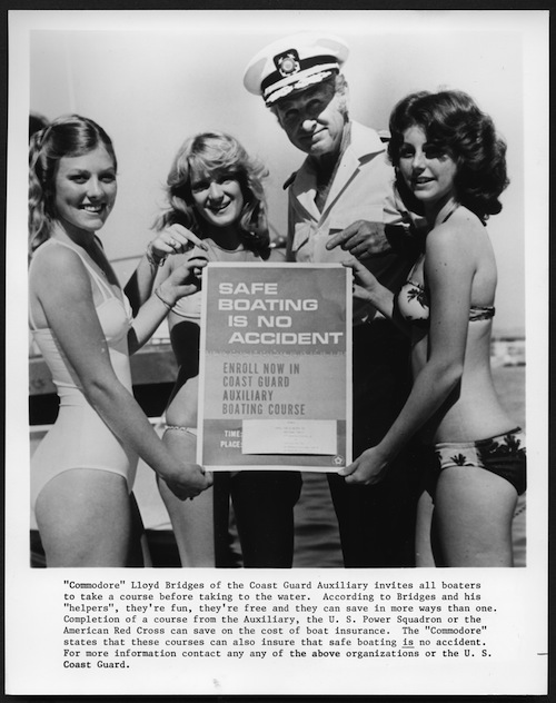 Commodore Lloyd Bridges poses with models in a U.S. Coast Guard Auxiliary promotional. Official U.S. Coast Guard photograph.